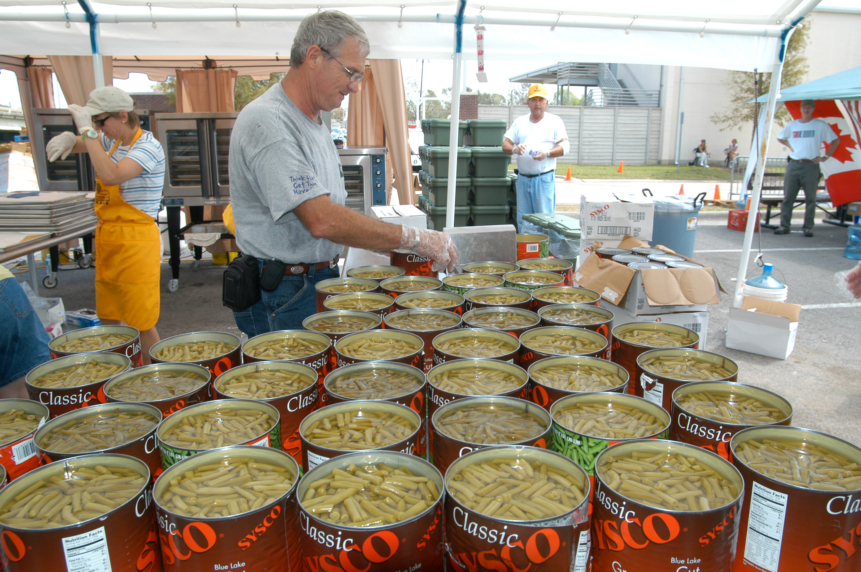 New Orleans, September 17, 2005 - Gallon-sized cans of green beans are open and ready to be cooked at a field kitchen set up by the Arkansas branch of the Southern Baptist relief association. The American Red Cross provides these hot meals using their feeding trucks to people throughout the city . Win Henderson / FEMA